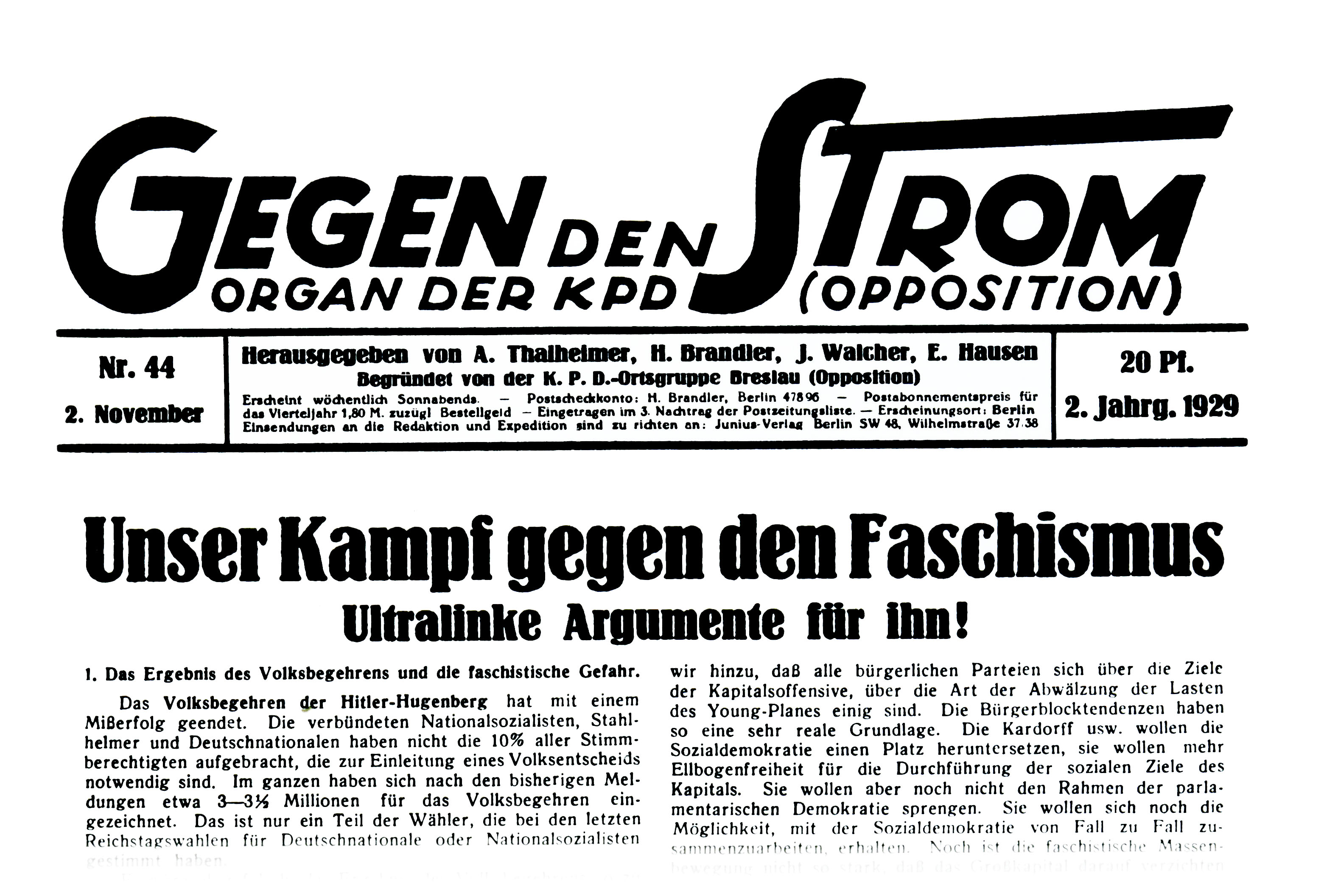 image: “Gegen den Strom”, German Communist Party (Opposition): Newspaper, Berlin 1929. Image: copy produced by Berkan, 2008, picture shows: “Gegen den Strom”, German Communist Party (Opposition): Newspaper, Berlin 1929.